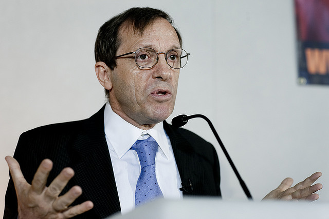 The Italian former athletics coach Sandro Donati